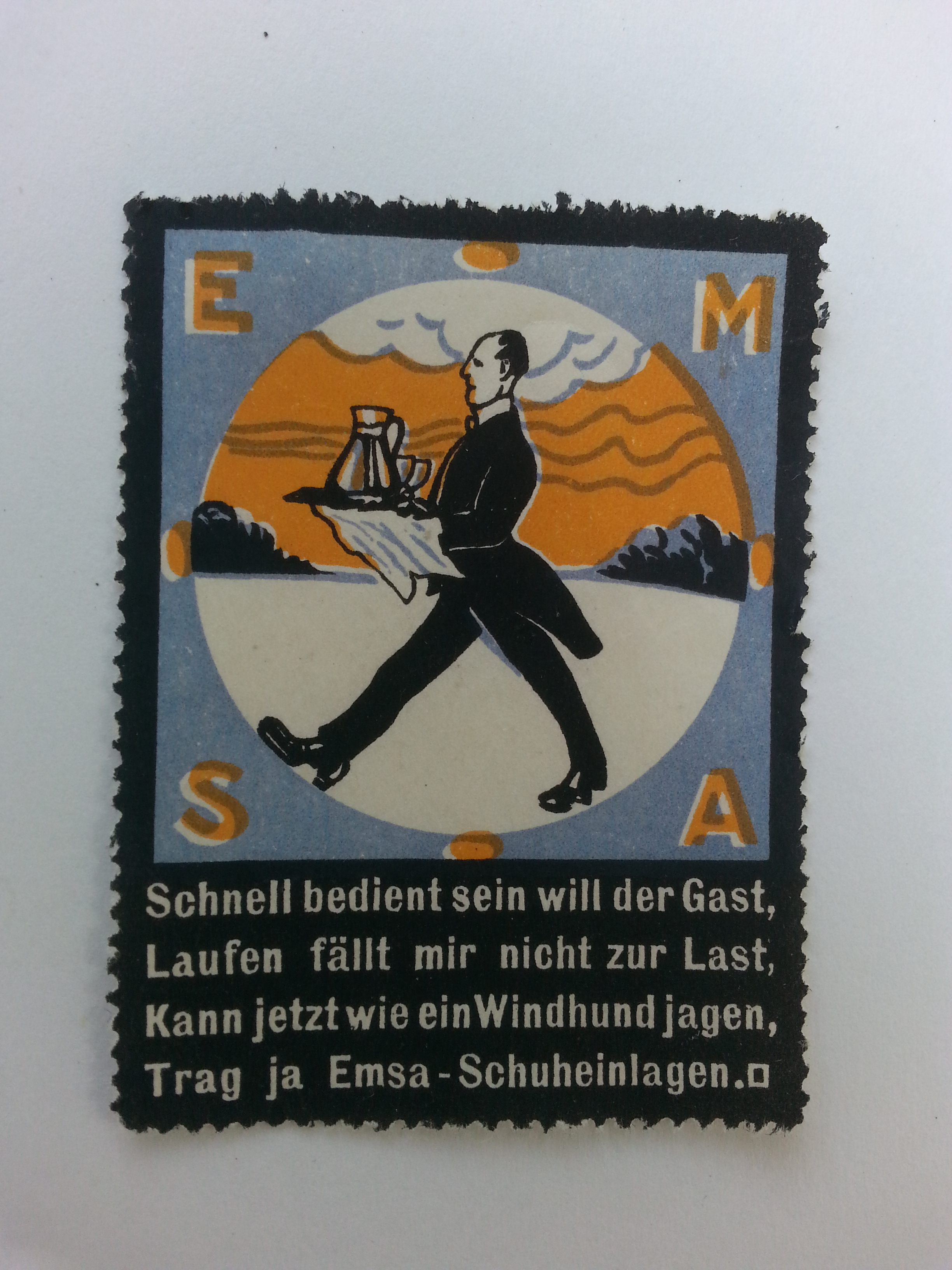 Poster stamp Waiter of the EMSA-Werke, Rostock, advertising for arch supports